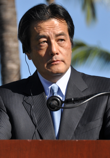 Kapolei, Hawaii - Japanese Foreign Minister Katsuya Okada listens to questions from reporters after meeting with Secretary of State Hillary Rodham Clinton where they discussed the movement of Marine Corps Futenma Air Base, the expansion of the Japan - U.S. security alliance, the war in Afghanistan and the nuclear programs in North Korea at the J. W. Marriott Ko Olina, Kapolei, Hawaii on Jan 12.